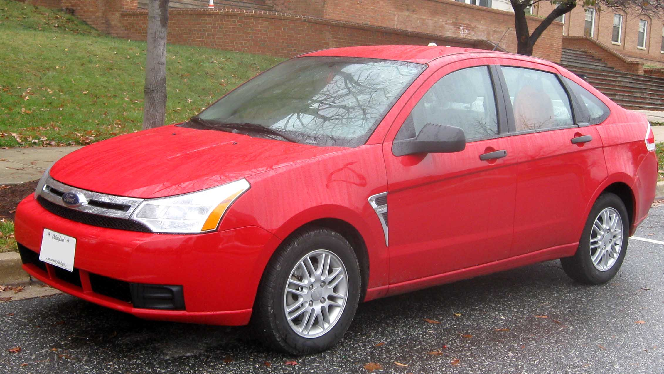 2008 Ford Focus photographed in College Park, Maryland, USA.